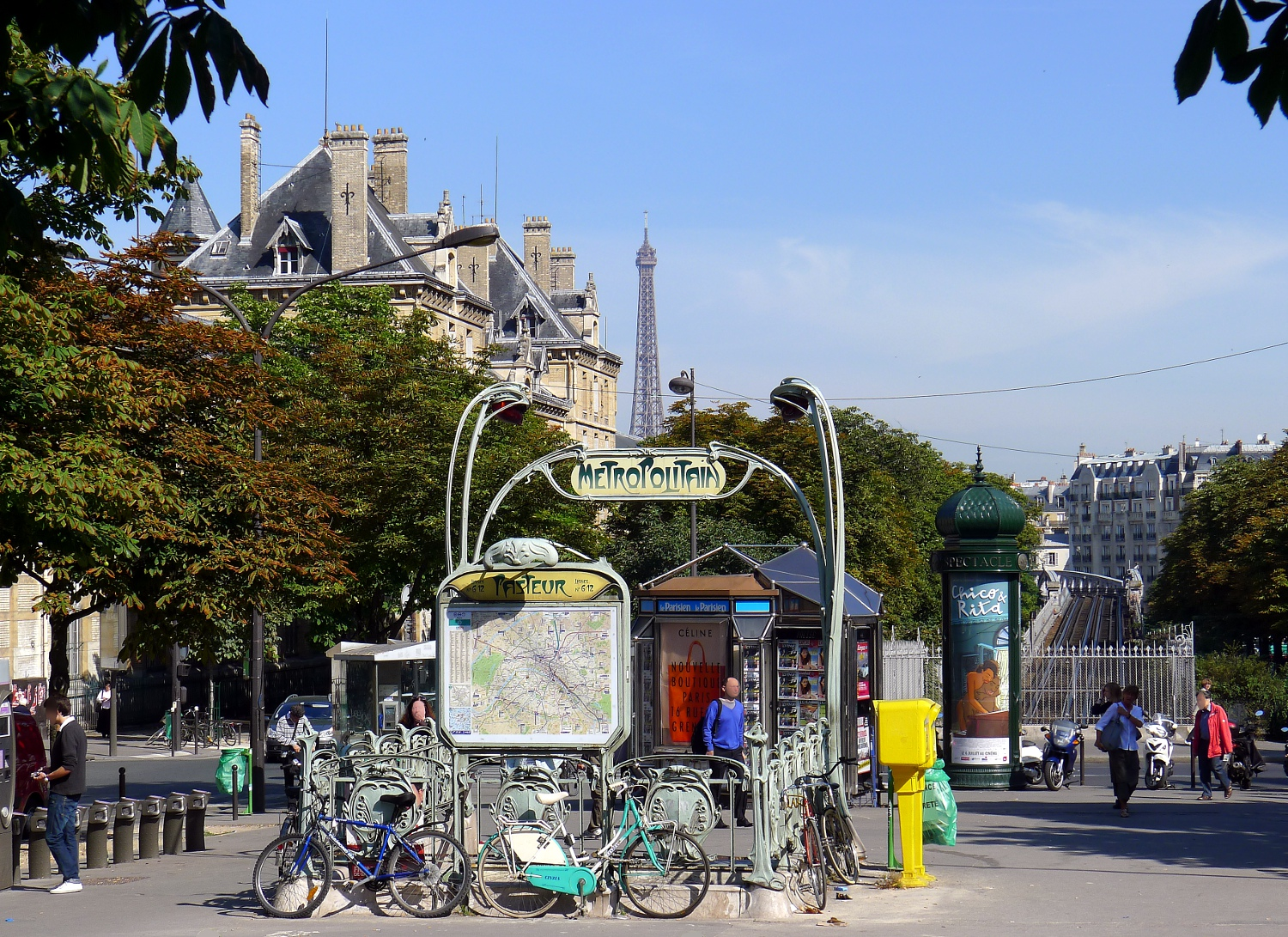 Pasteur boulevard - Paris